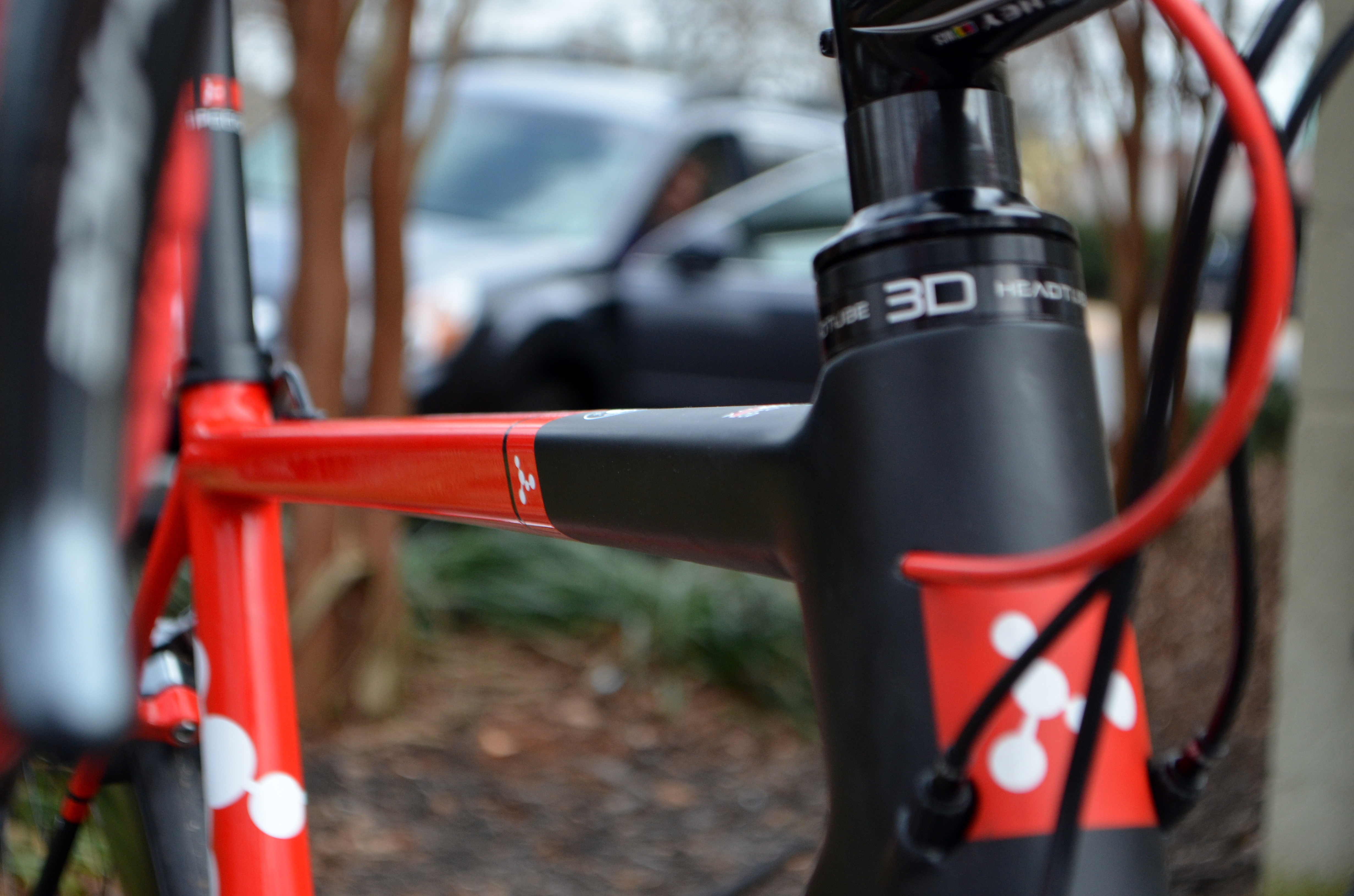 Argon 18 Gallium Pro with Shimano Dura Ace 9000 and Enve 6.7 Wheelset